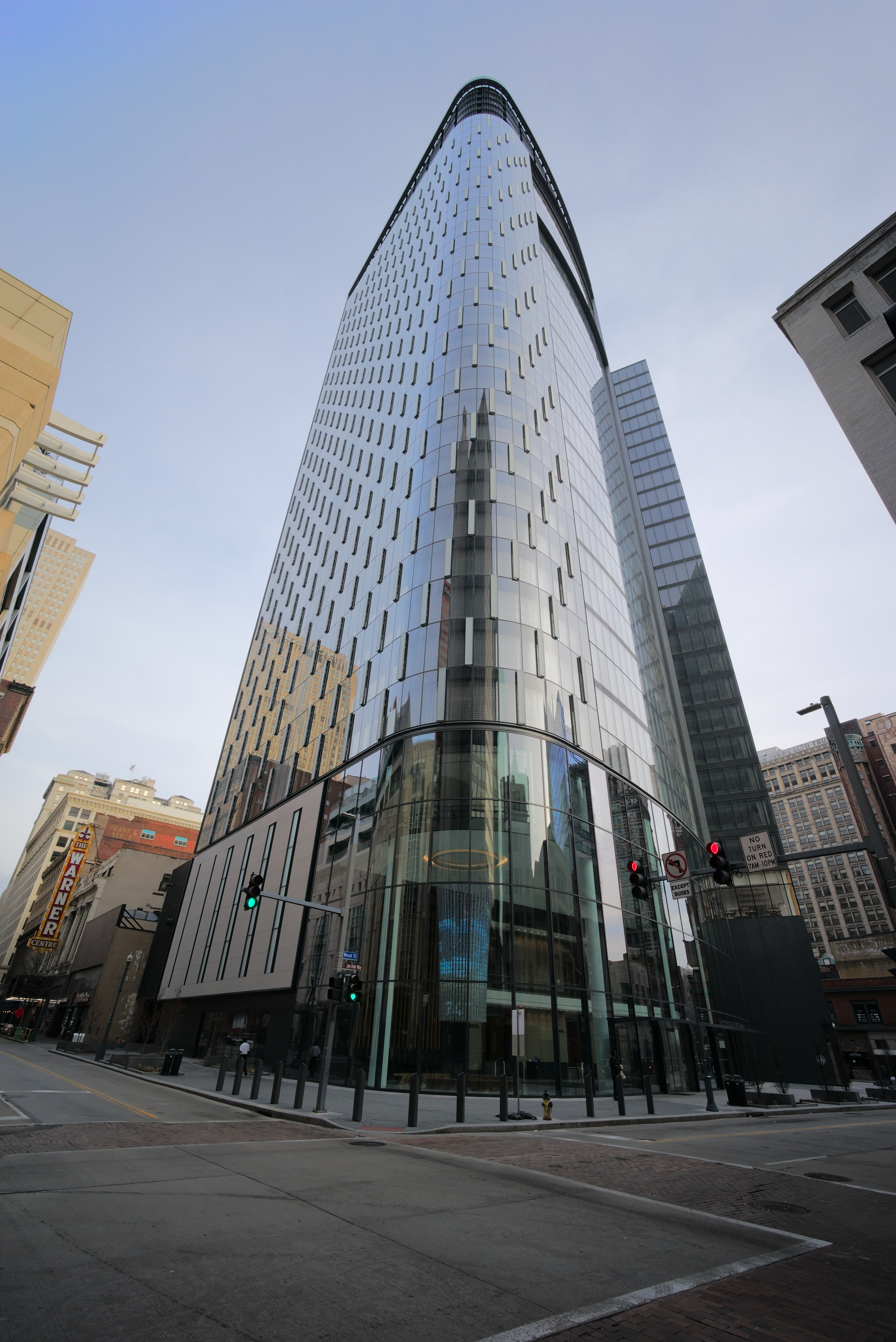 The Tower at PNC Plaza as seen in November 2015.